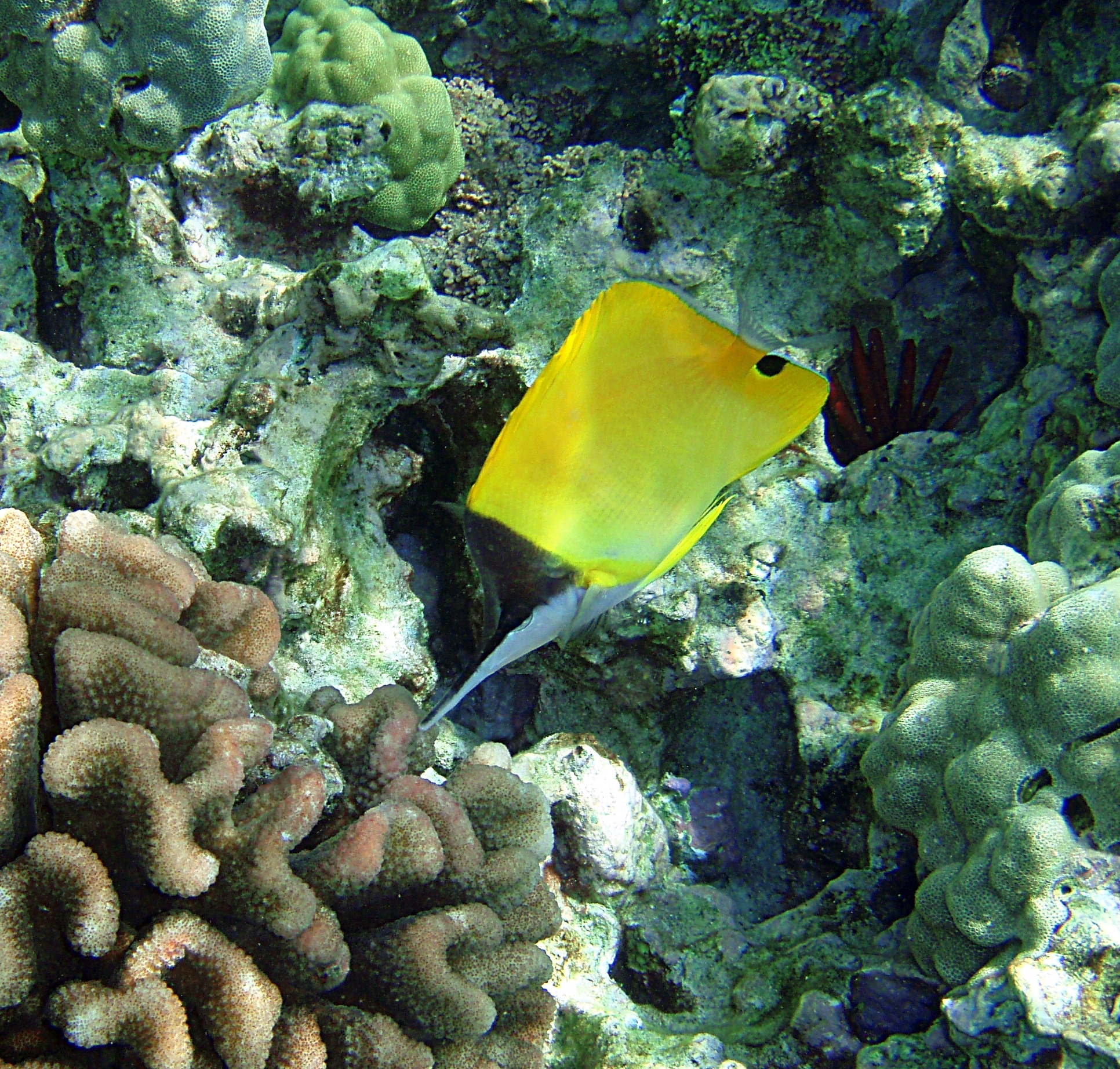 Longnose Butterflyfish Forcipiger flavissimus at Kona The image was taken by Brocken Inaglory